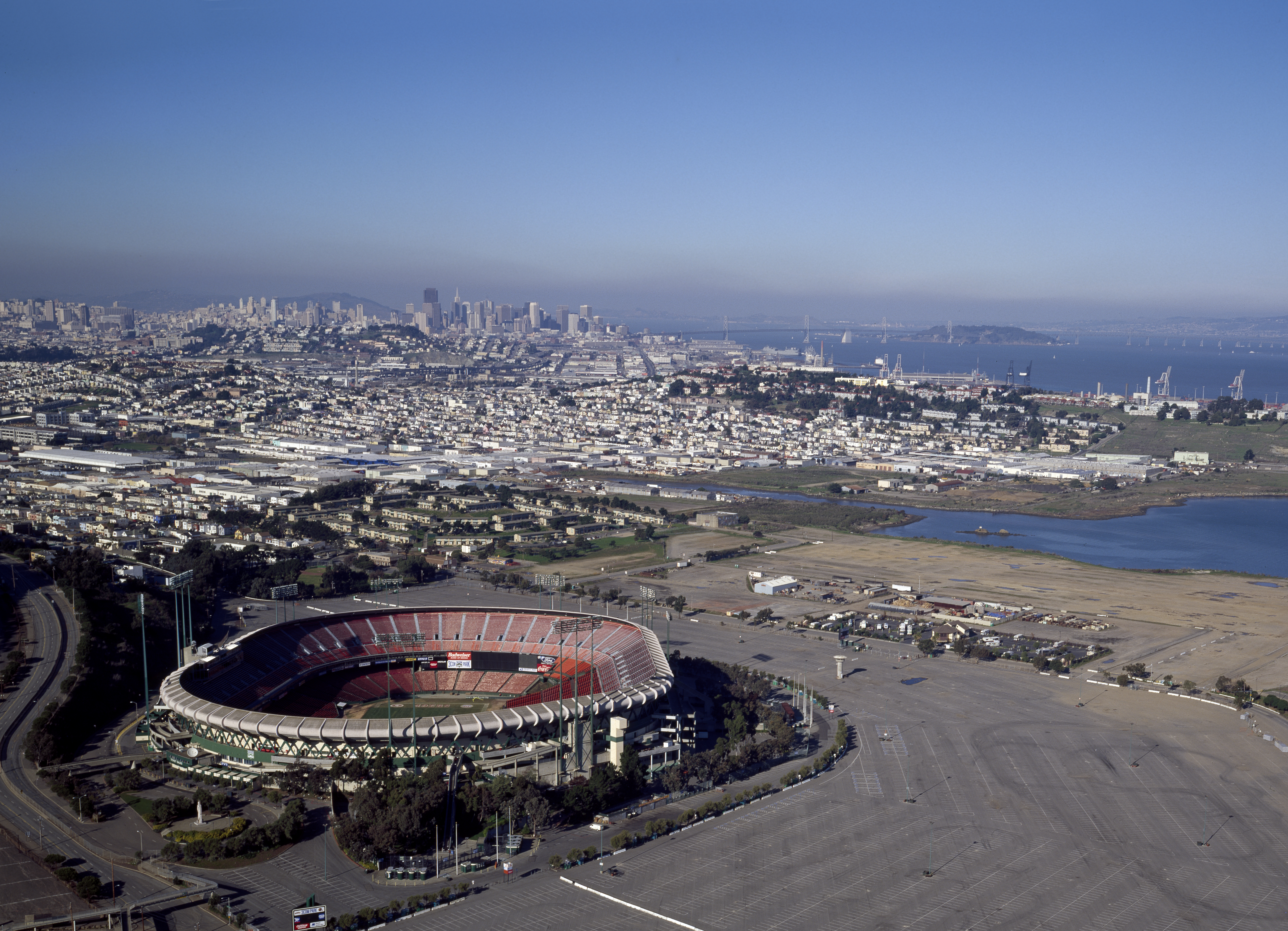 Candlestick Park in the forefront of this aerial taken of San Francisco, California